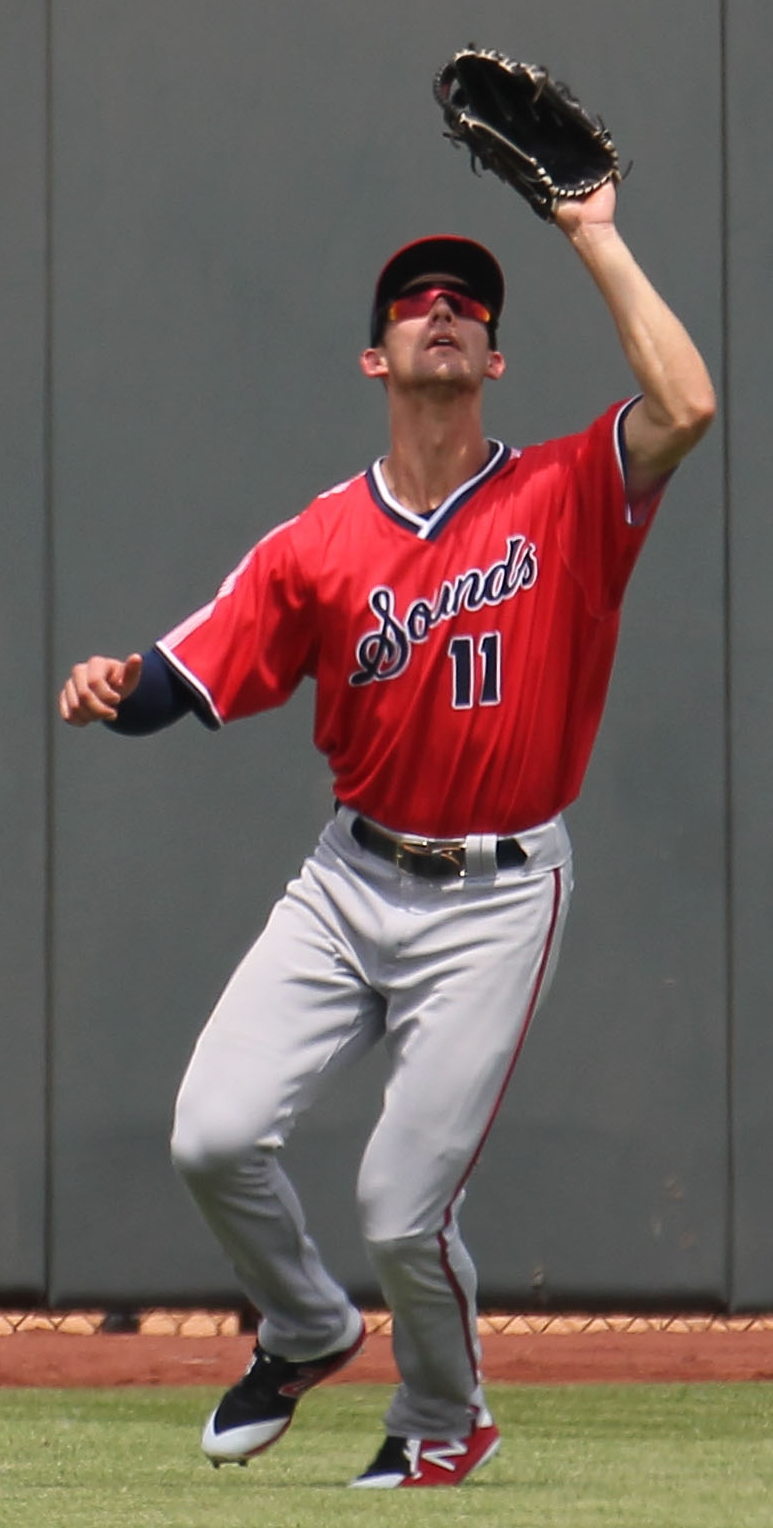 Minda Haas Kuhlmann | 2019 USAGE INSTRUCTIONS: You are welcome to share or publish to your own site or social media account, but you MUST credit me, Minda Haas Kuhlmann. Twitter: @minda33. Instagram: minda.haas